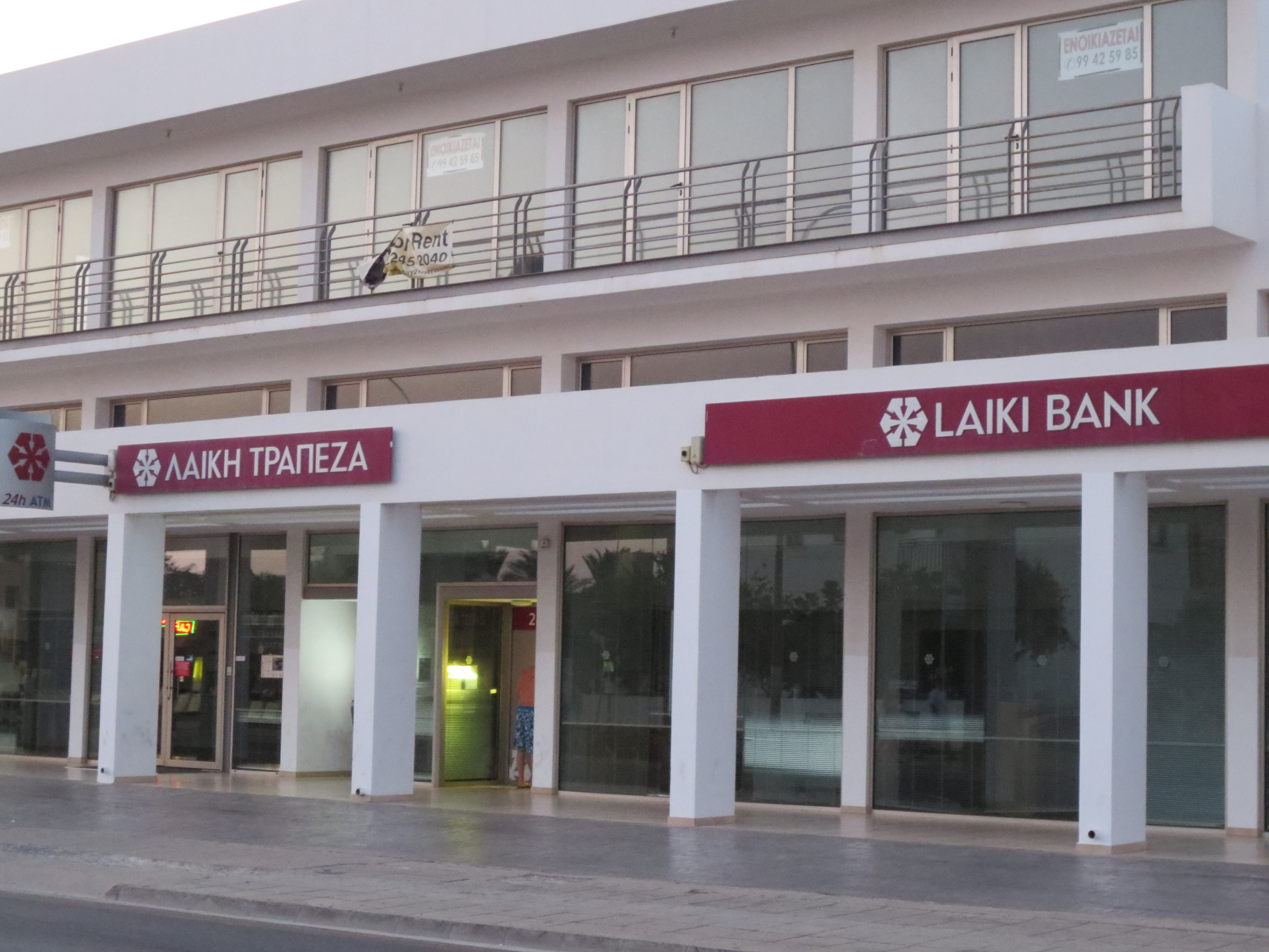 A photograph of a Laiki Bank regional department in Agya Napa, Cyprus